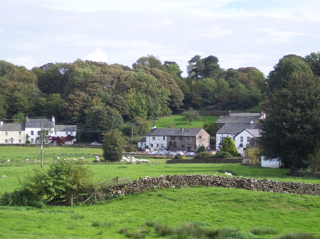 Bouth From Old Hall farm looking towards the White Hart.